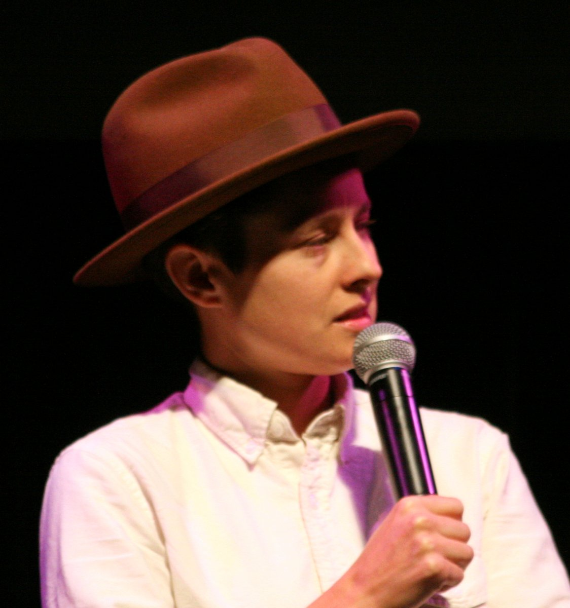 Rhea Butcher performing at w00tstock 8.0